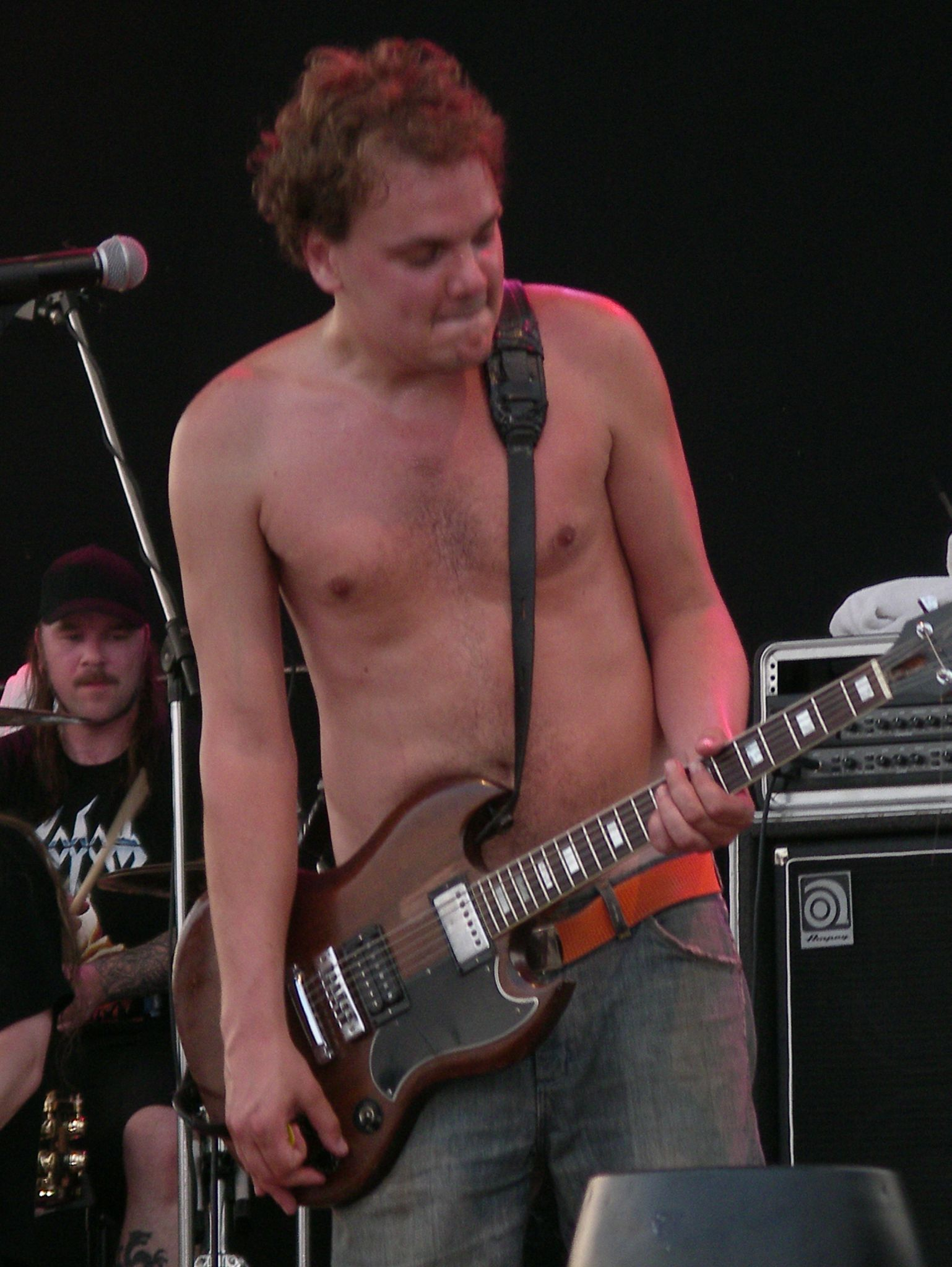 Uffe Cederlund, former guitarrist of Entombed playing live at Evolution Fest 2005.